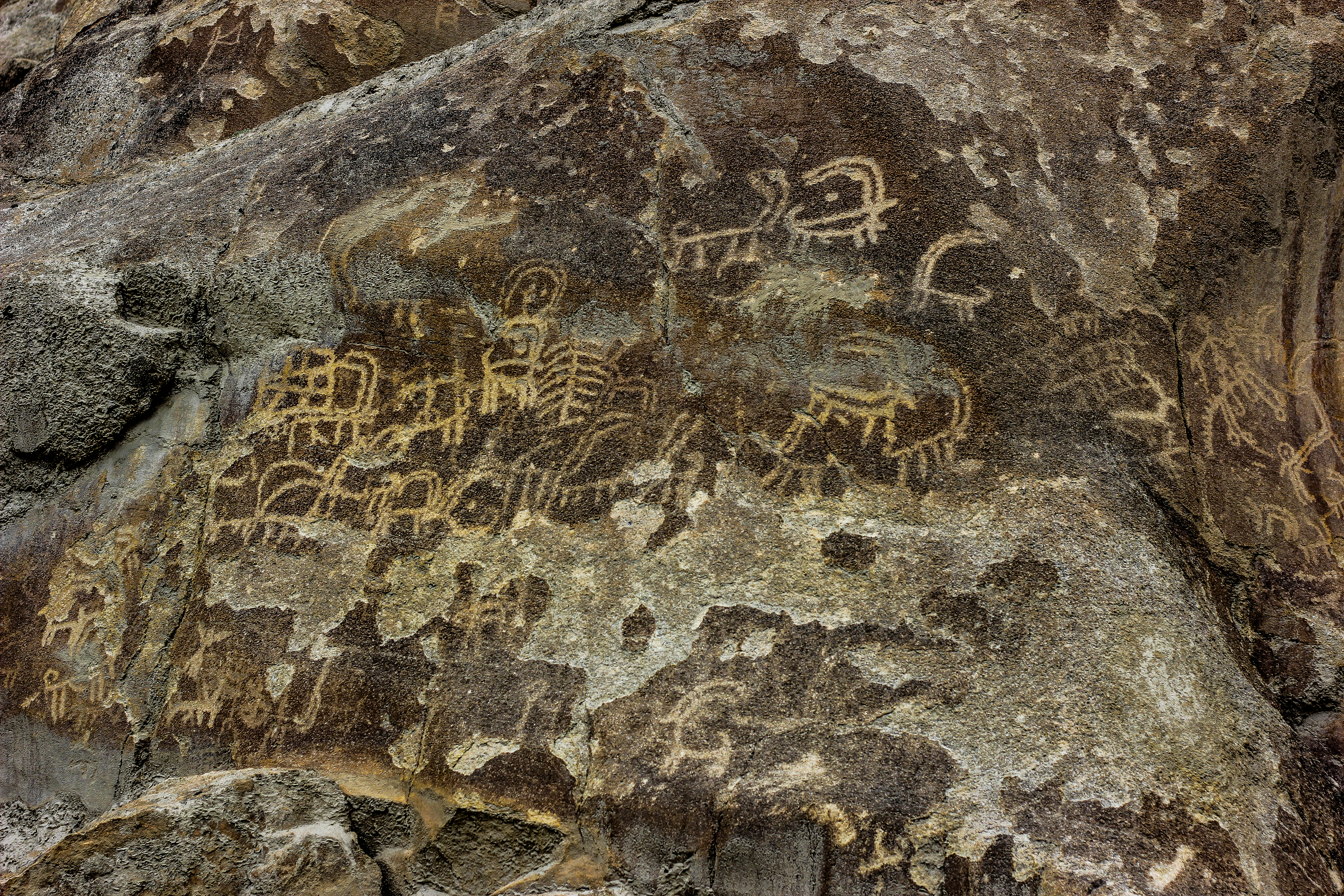 Sacred Rocsk of Hunza This is a photo of a monument in Pakistan identified as the GB-18